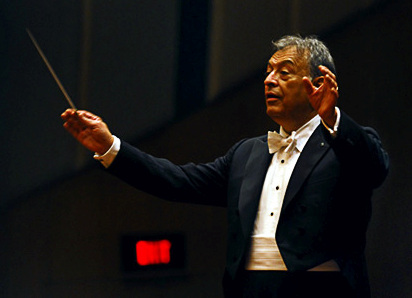 Zubin Mehta conducting the Israeli Philharmonic Orchestra at the Jamshed Bhabha Theatre(NCPA) in Mumbai. A series of concerts were held to mark the centenary of Mehli Mehta, Zubin's father.